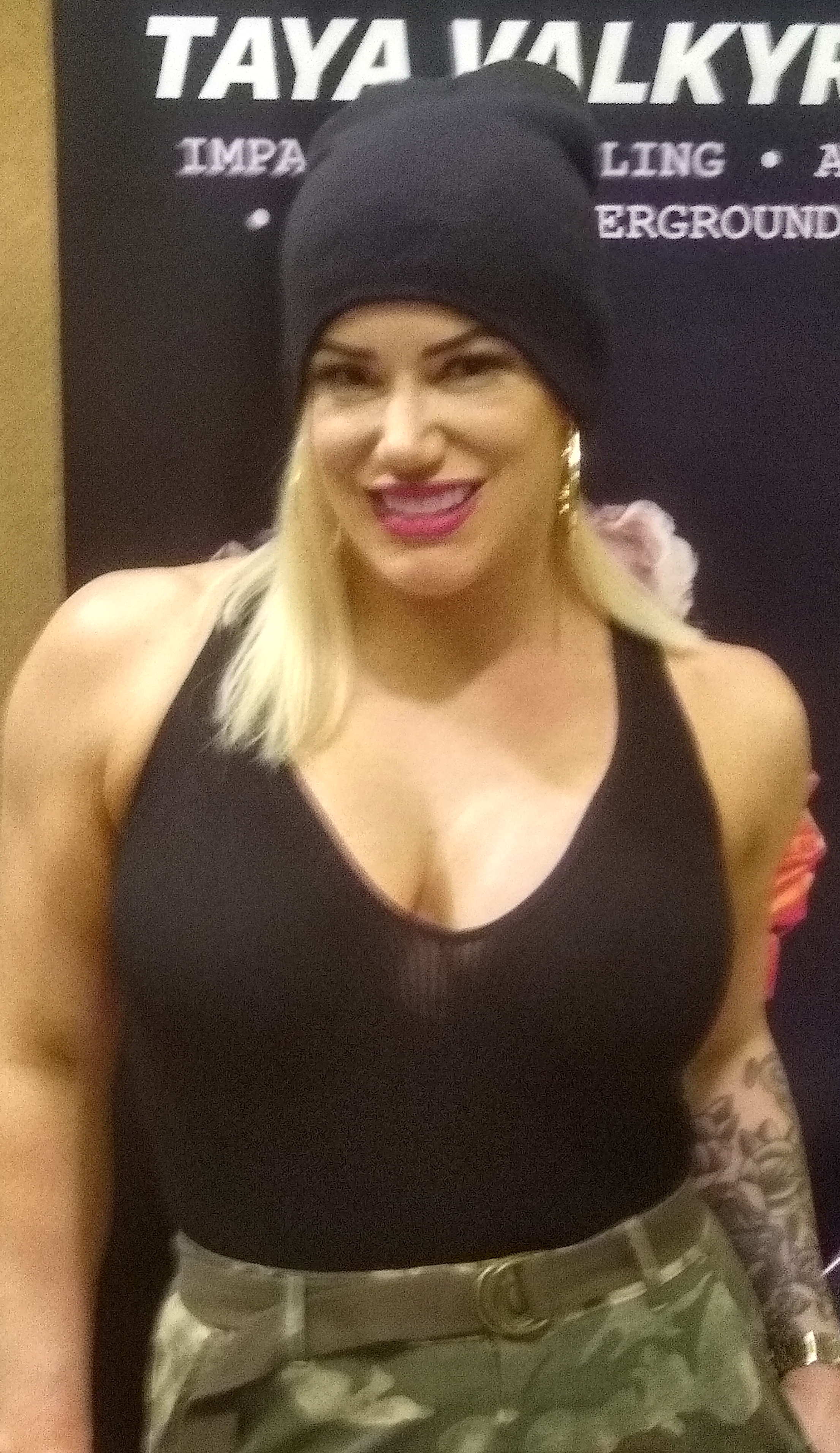 Taya Valkyrie at LAX Fan Fest 2020 in Los Angeles County